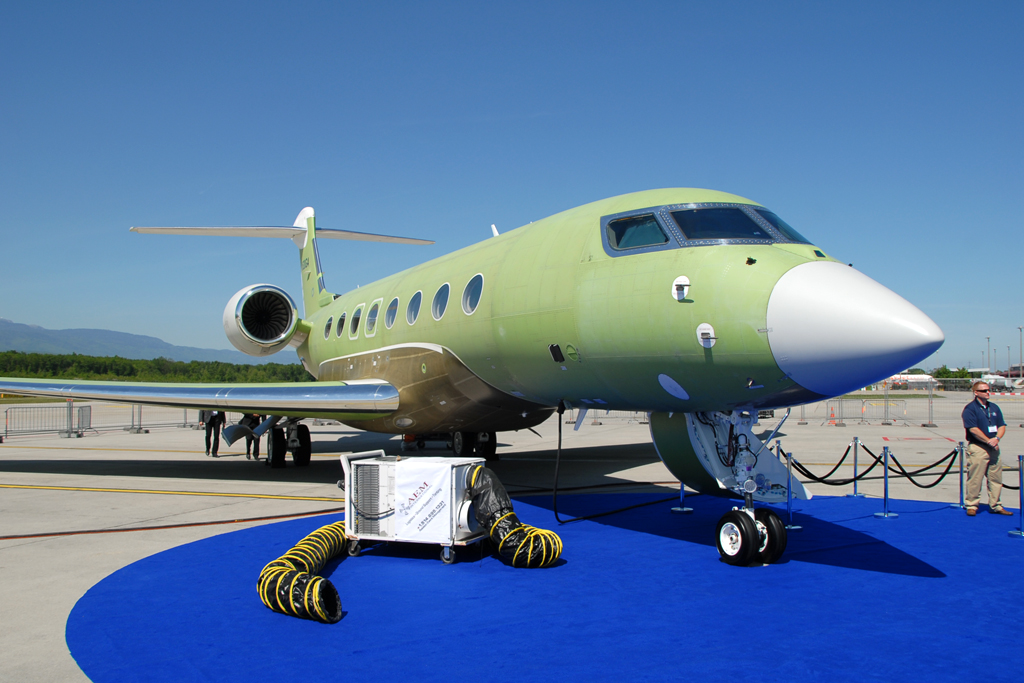 N520GA Gulfstream 650 msn 6020 seen on static display during EBACE 2012 at GVA/LSGG.